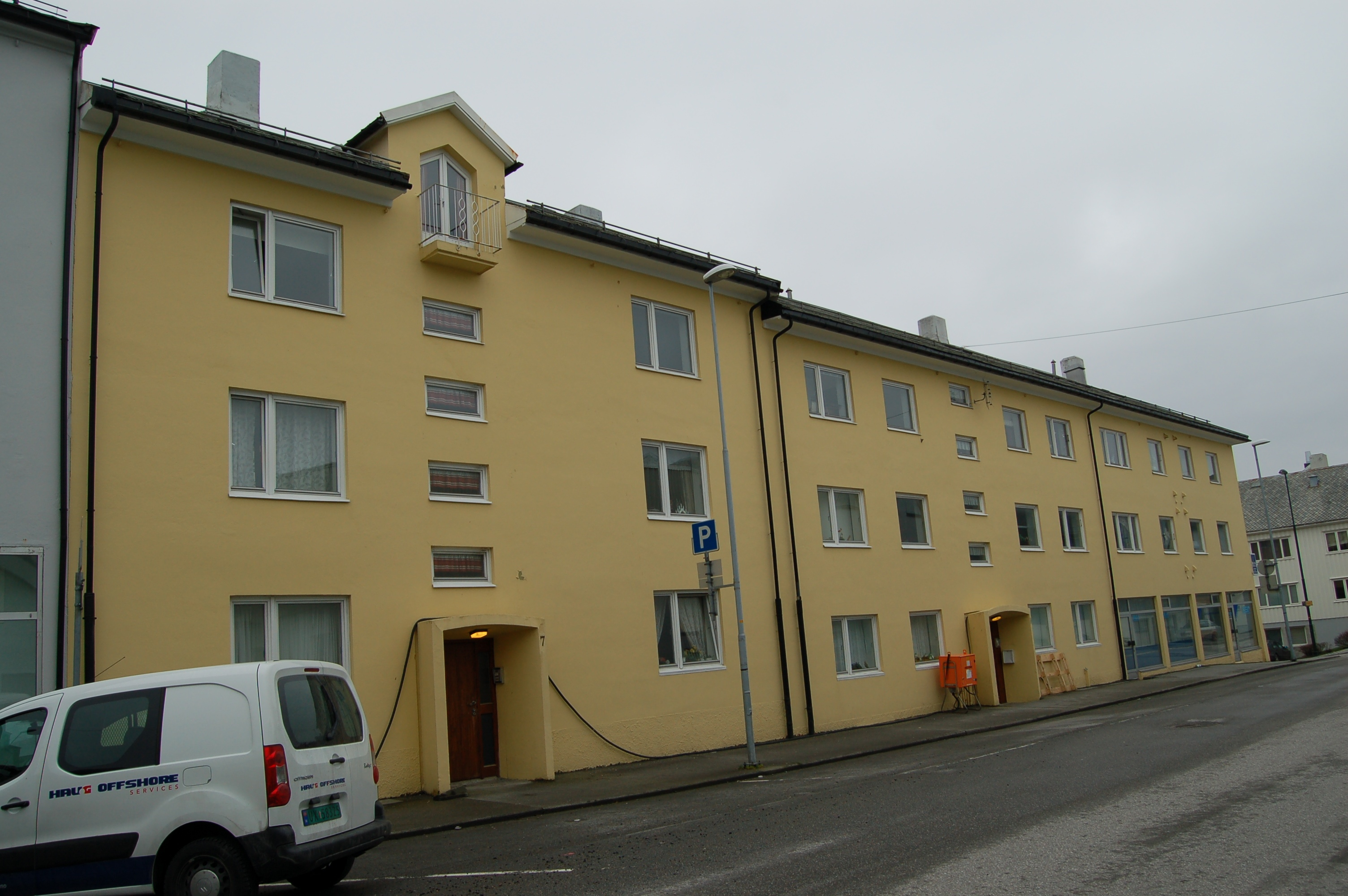 Housing in Kristiansund, Norway. Erected in 1949. Designed by the Norwegian (female) architect Maja Melandsø